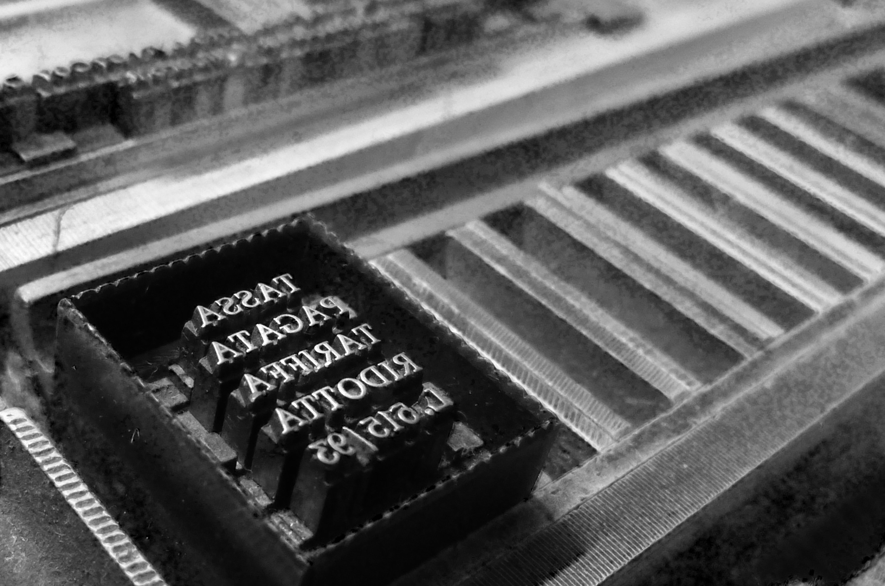 typesetting in typography is still hand made​​, and is a fundamental process for the traditional letterpress printing.